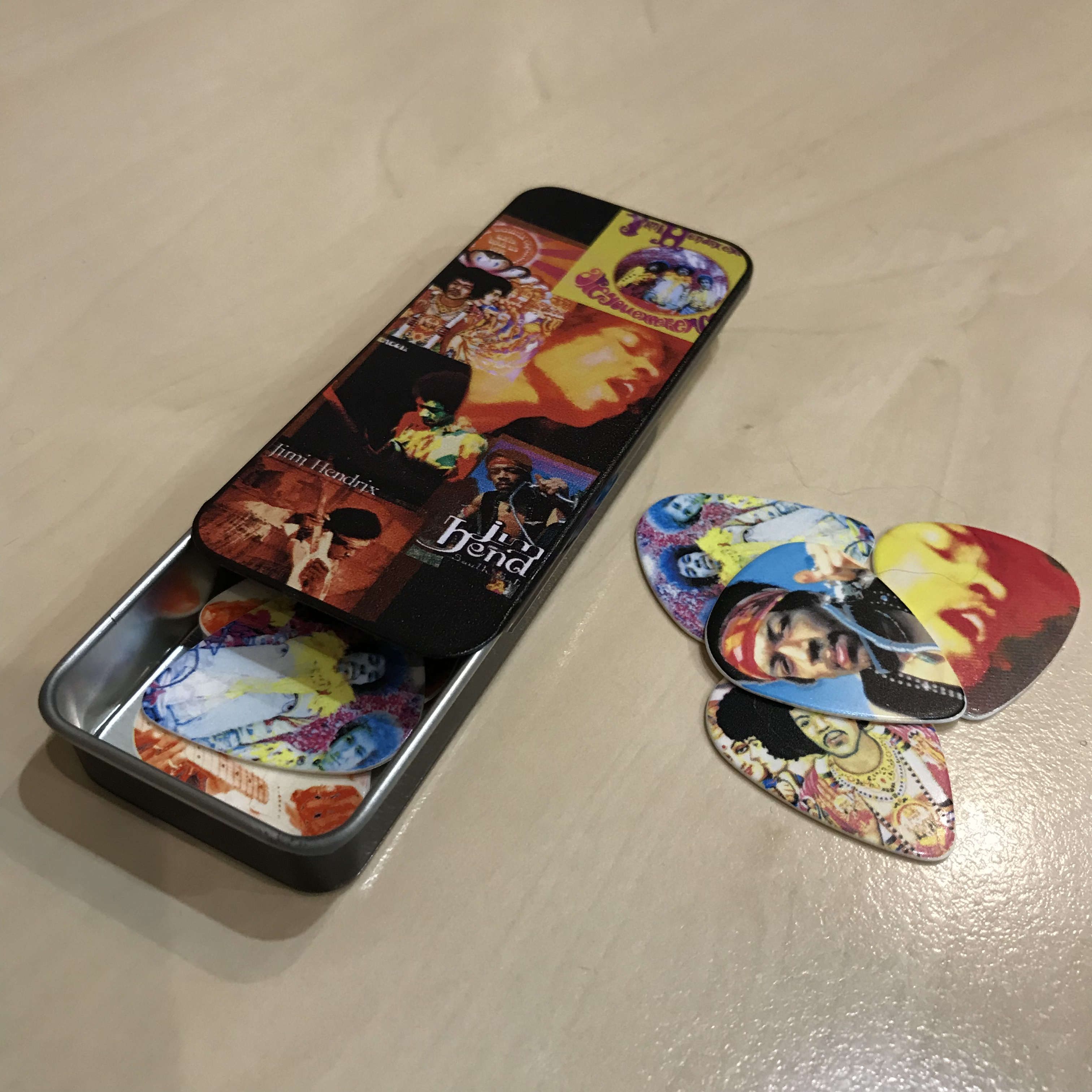 DUNLOP Jimi Hendrix Pick Tin